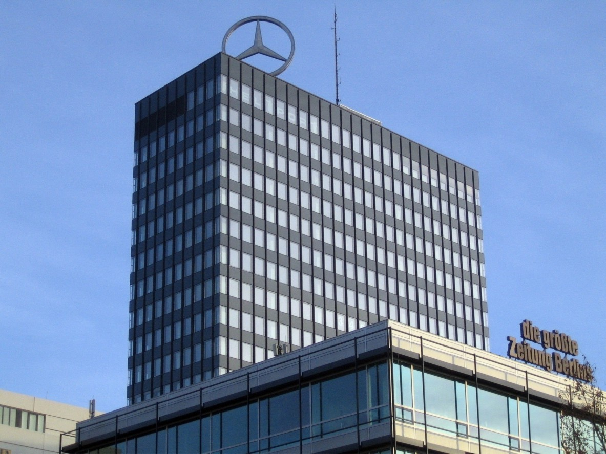 The Europa-Center in Berlin-Charlottenburg